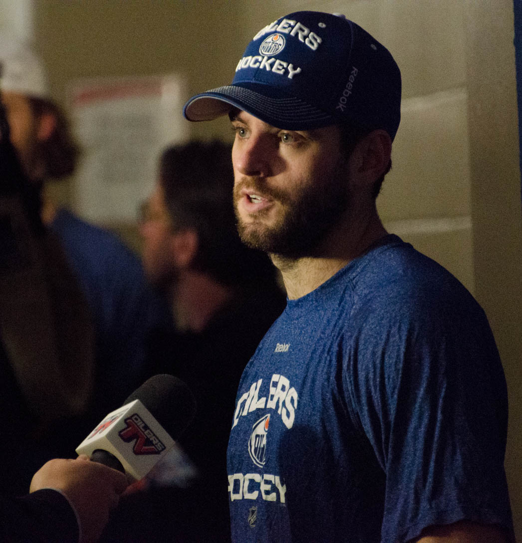 Richard Bachman interviewed at an Edmonton Oilers practice, Sept. 27, 2014